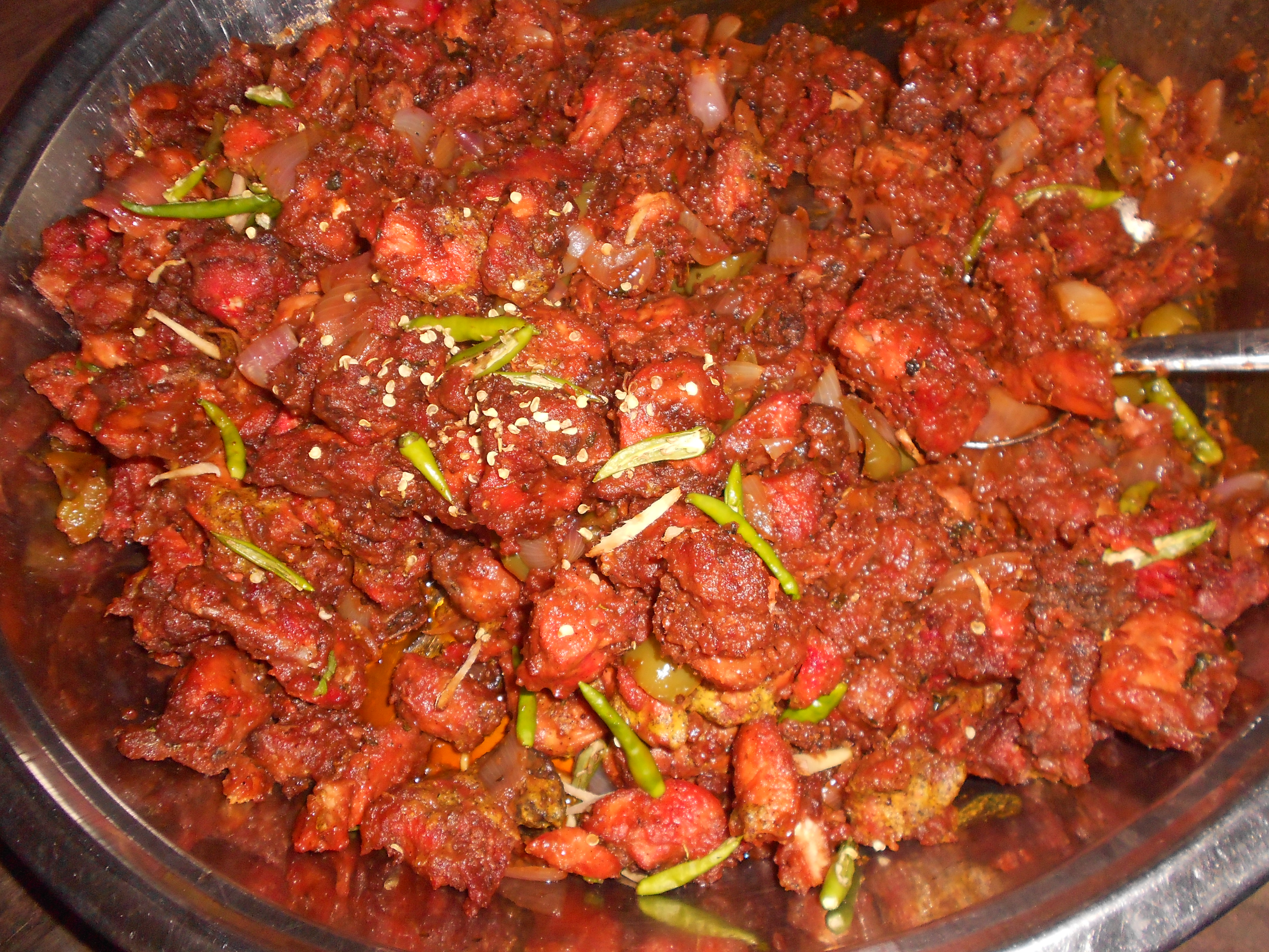 Chicken Masala ଓଡ଼ିଆ: ଚିକେନ୍ ମସଲା